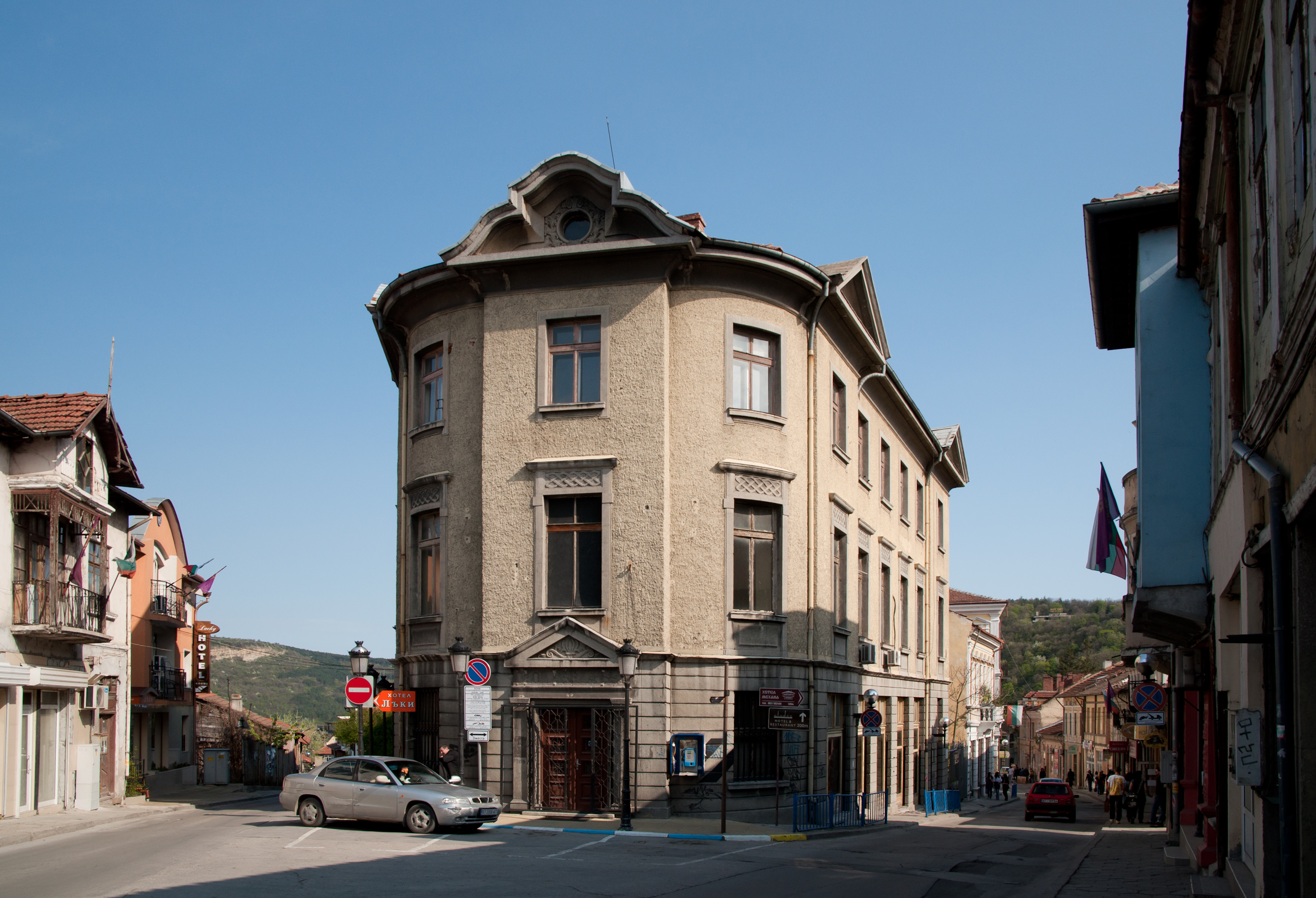 The intersection of Ivan Vazov street and Nicola Piccolo street, Veliko Tarnovo.